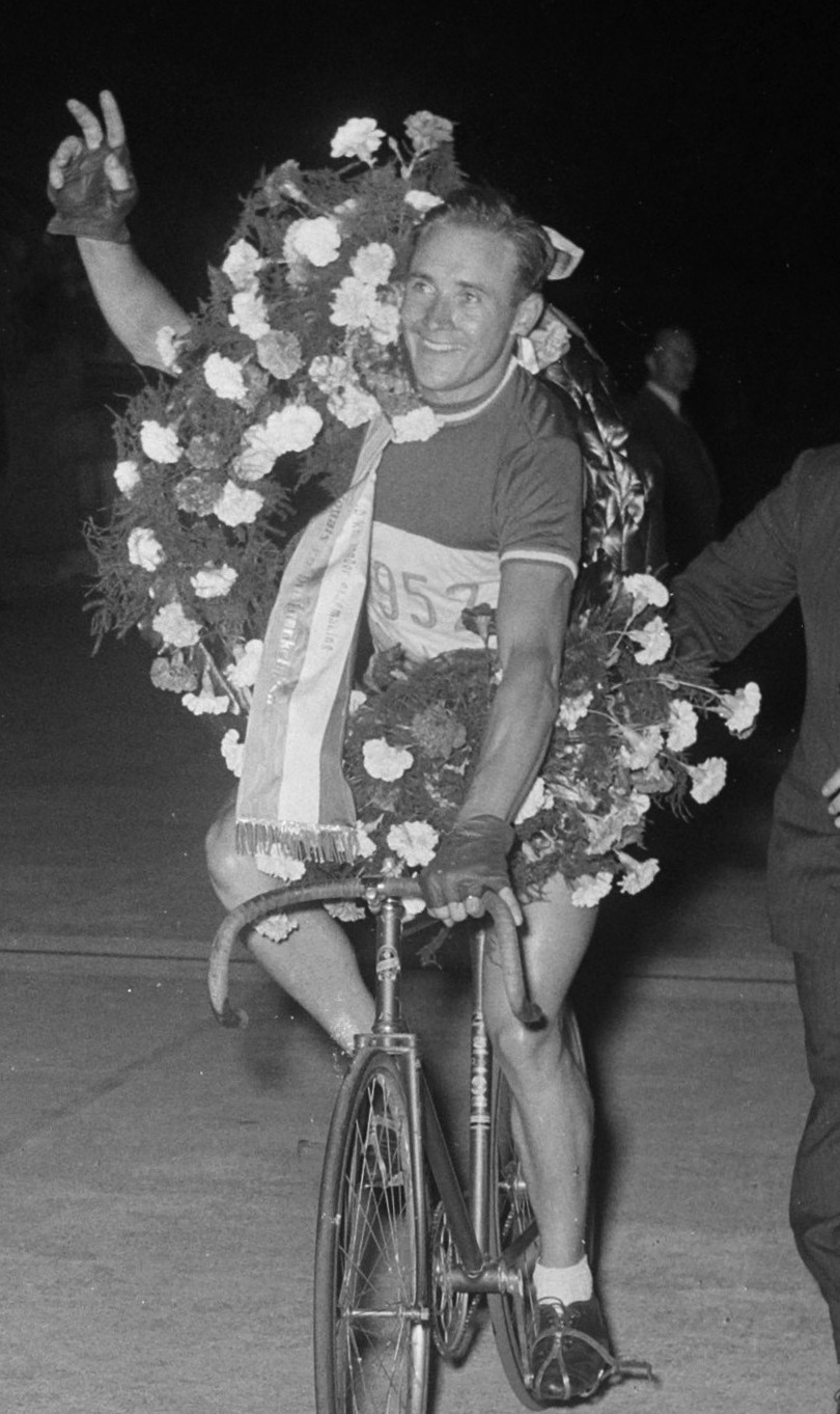 50km Prof Huib Vinken. Winnaar